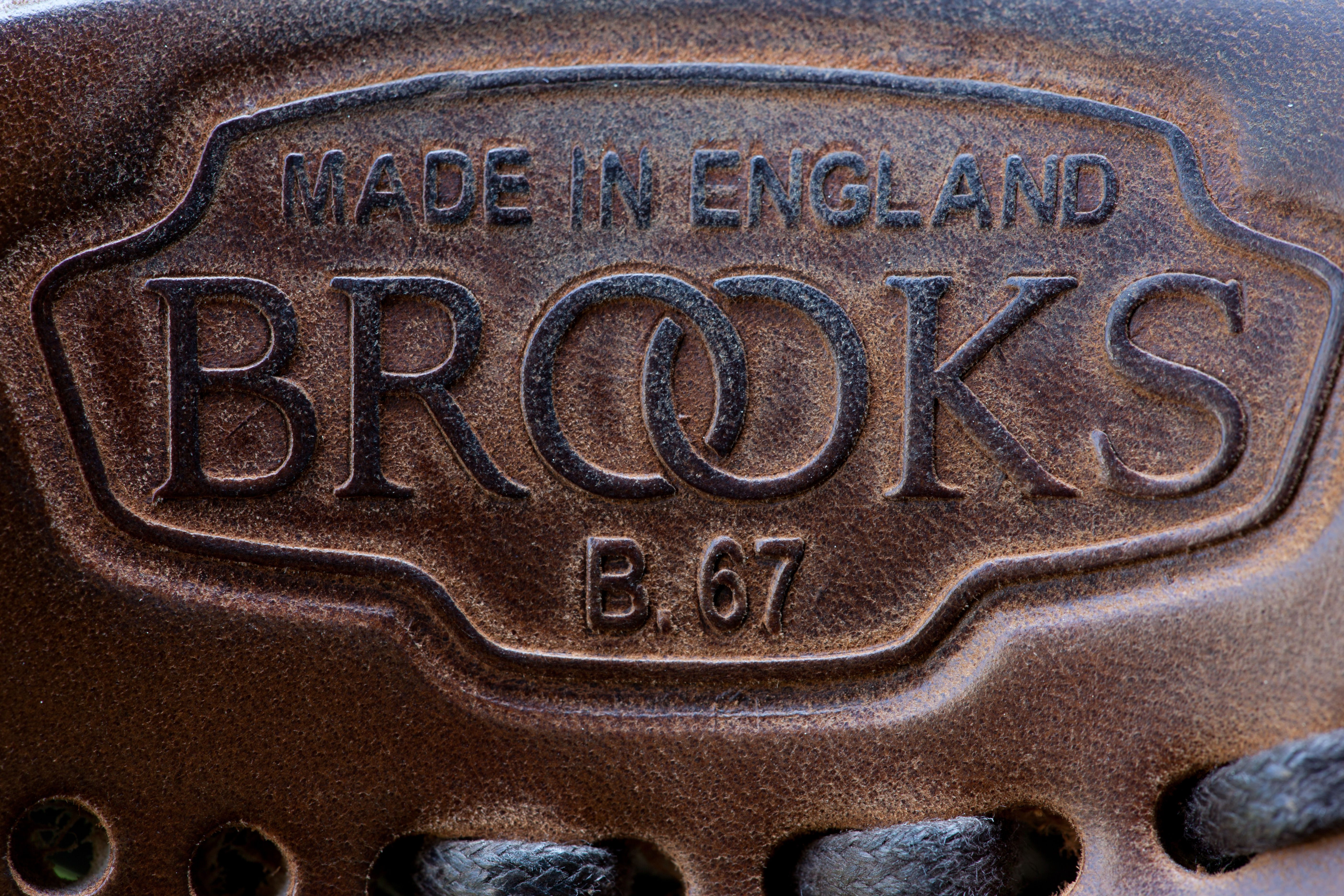 Logo on the B.67 leather saddle (aged version).